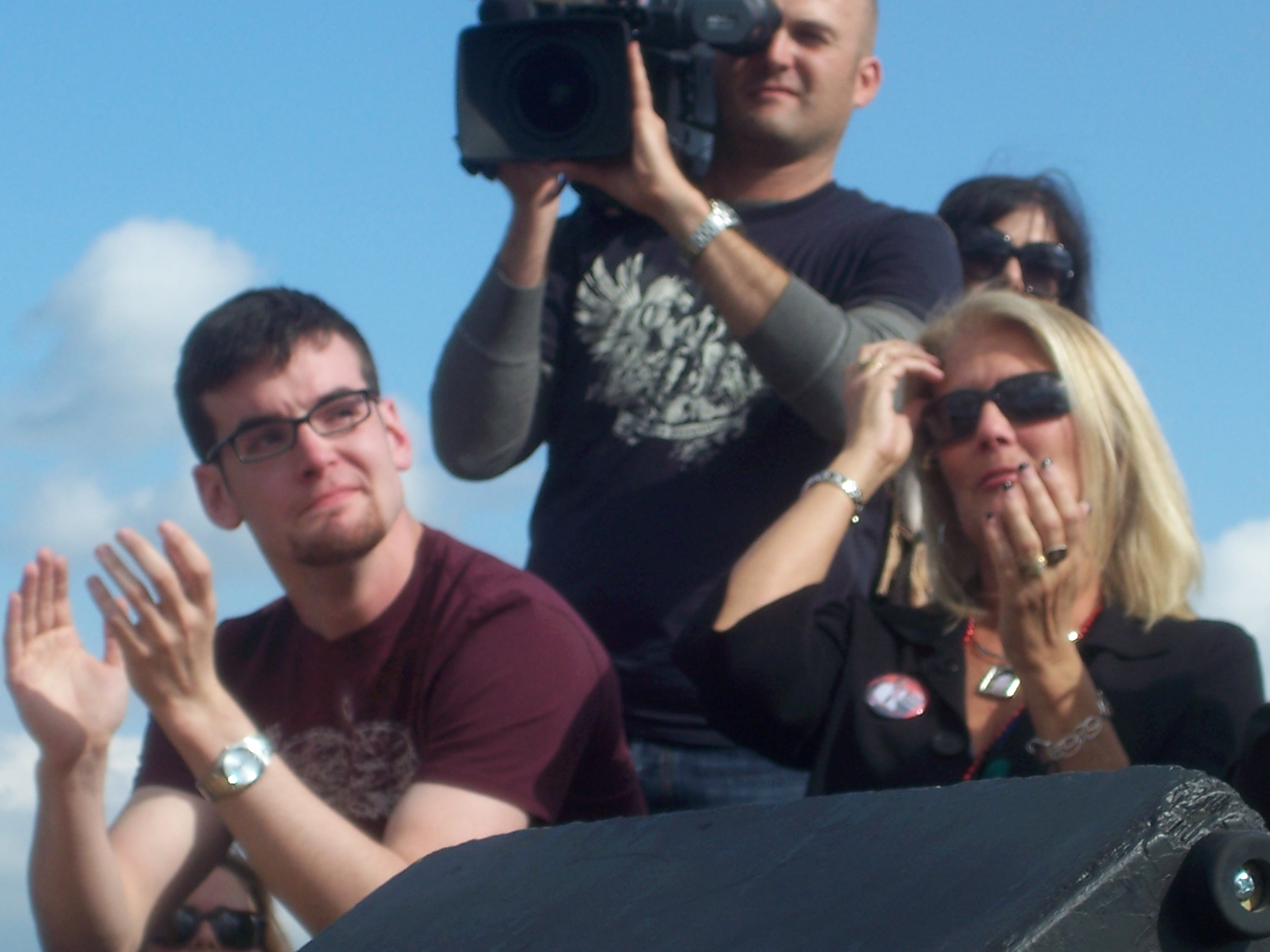 David Cook's family, at one of his appearances.